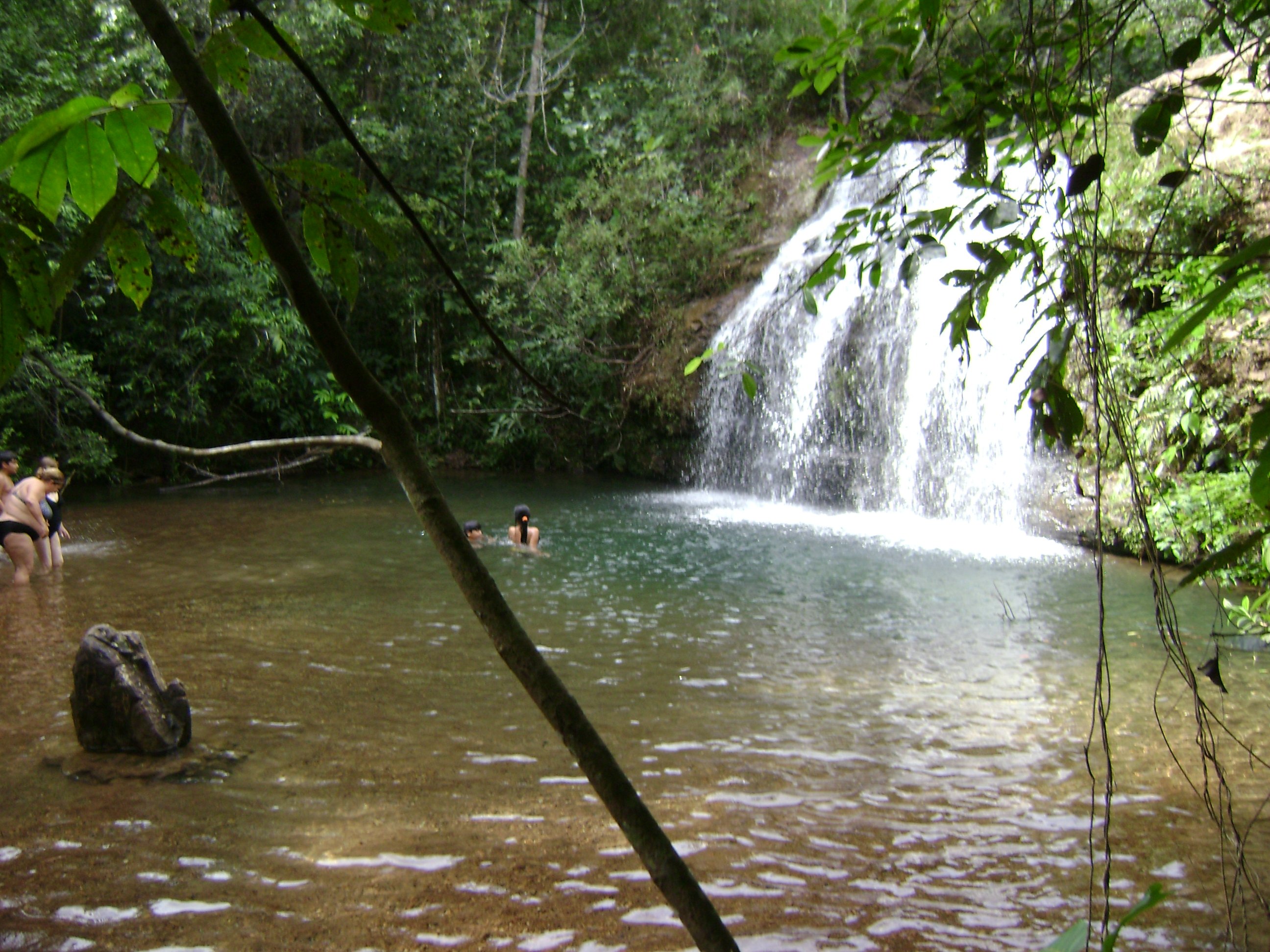 Waterfall in Caldas Novas, Goiás, Brazil.